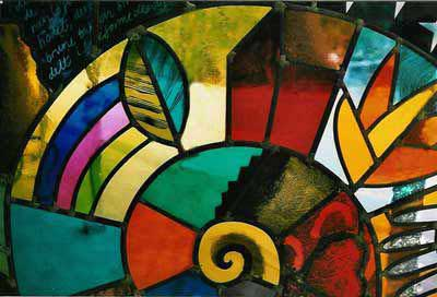 Uploaded with permission from artist Line With